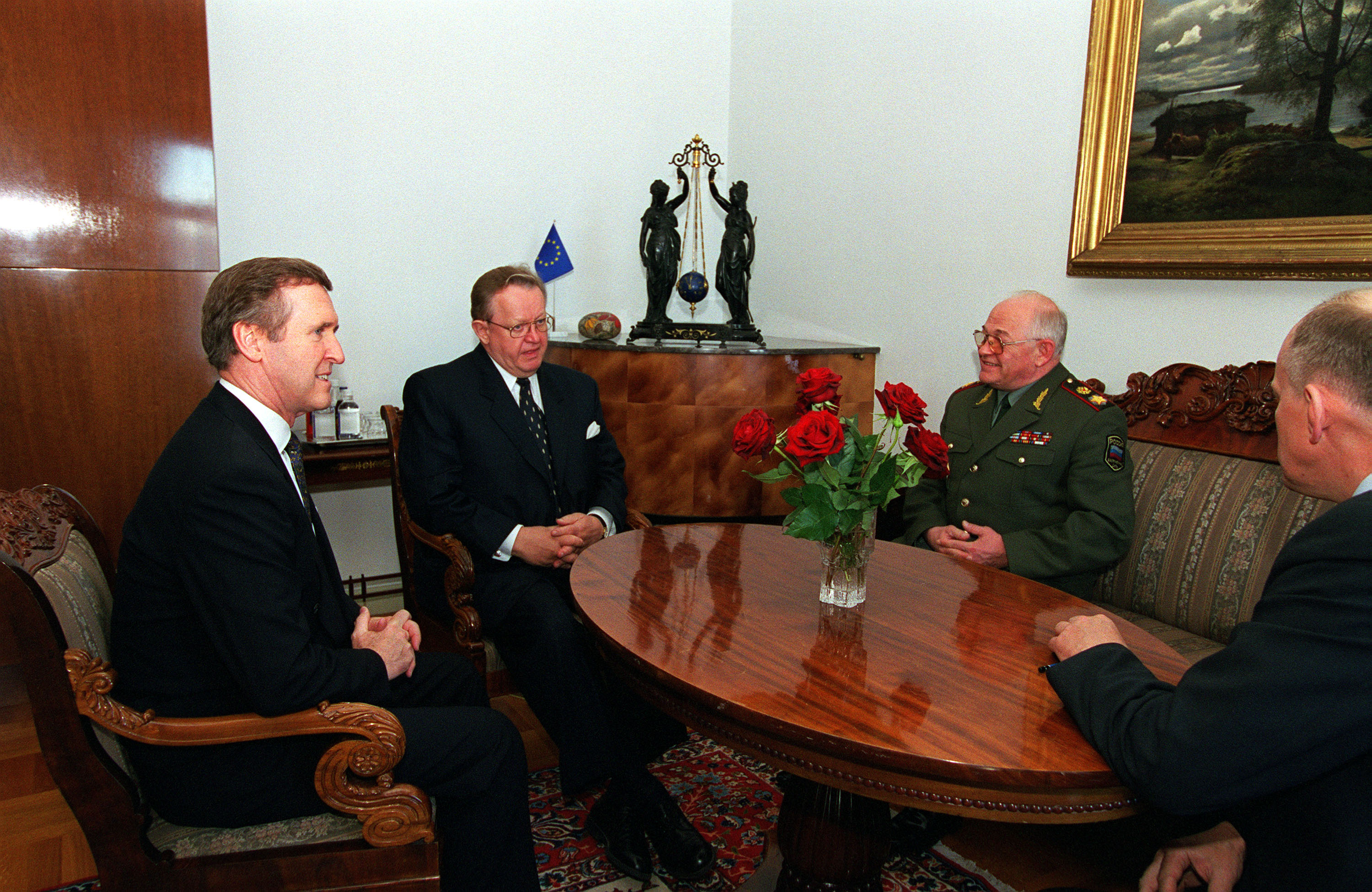 Secretary of Defense William S. Cohen (left), Finnish President Martti Ahtisaari (2nd from left), and Russian Minister of Defense Marshal Igor Sergeyev (2nd from right), are joined by an interpreter (right) as they meet for further talks at the Presidential Place in Helsinki, Finland, on June 17, 1999. The men are discussing the details of Russia's participation in the peacekeeping efforts in Kosovo.